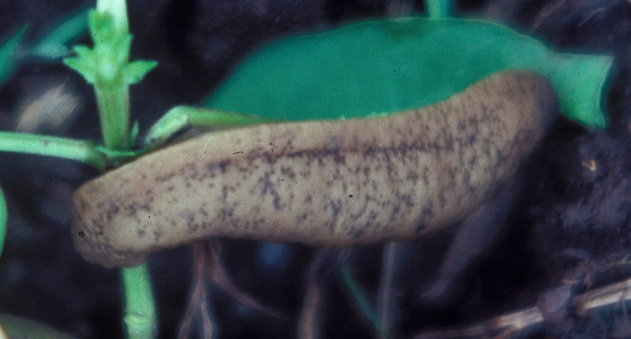 Photo of Sarasinula plebeia on bean (Phaseolus spp.).